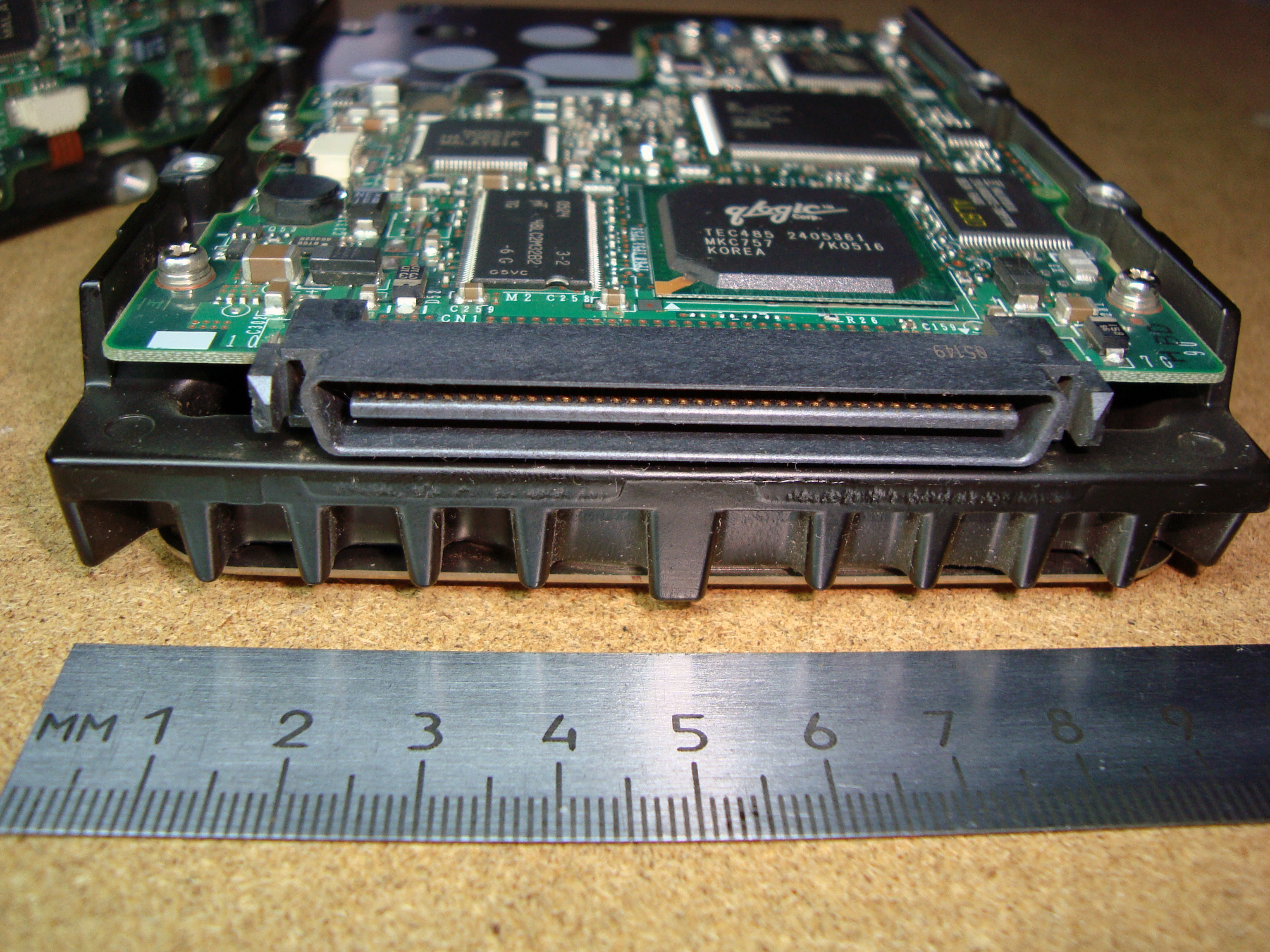 SCA-2 type connector at Ultra320 LVD SCSI Fujitsu MAP3735NC-U4 hard disk drive.